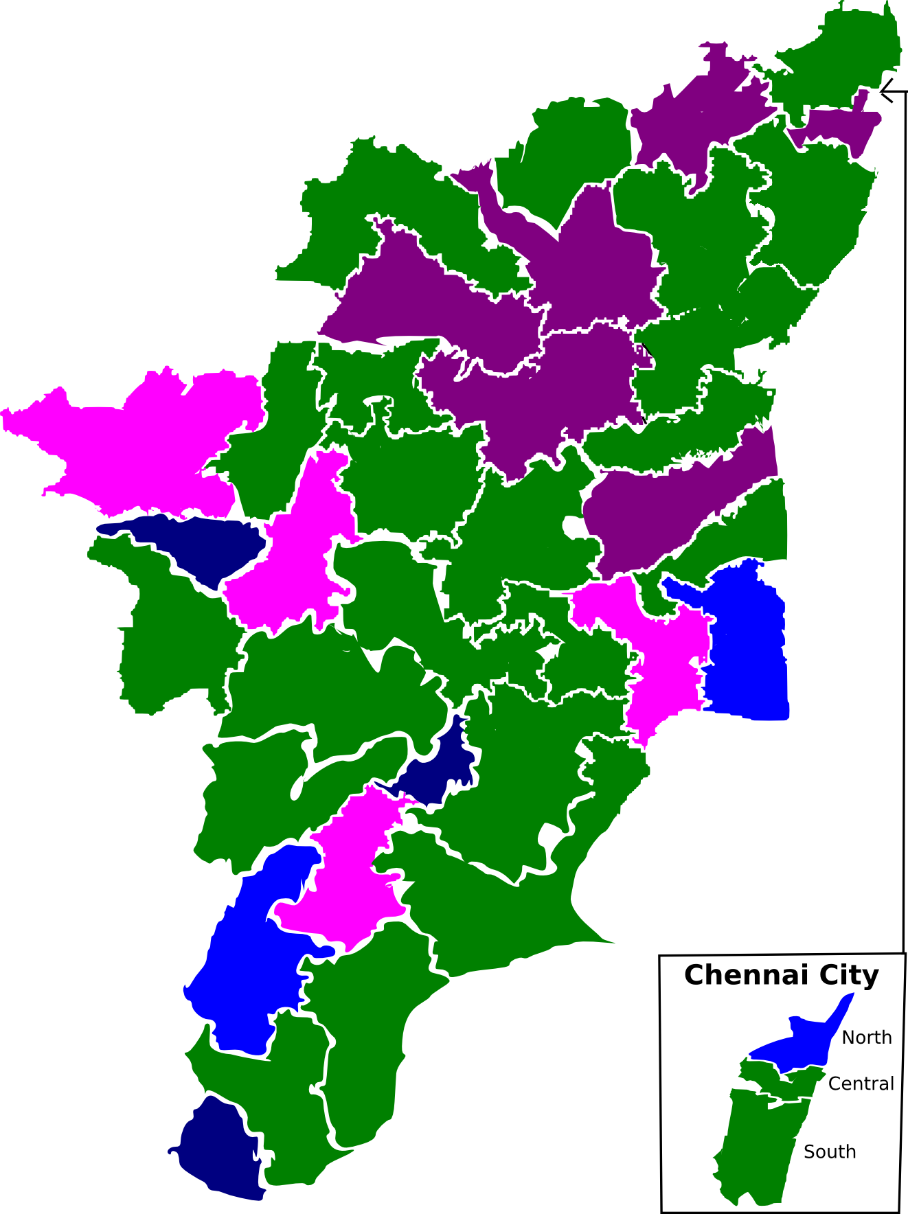 Election map based on parties contesting under the UPA alliance in 2009. Lok Sabha Election map for Tamil Nadu. Map is based on ECI drawn map. Results are based on ECI website.